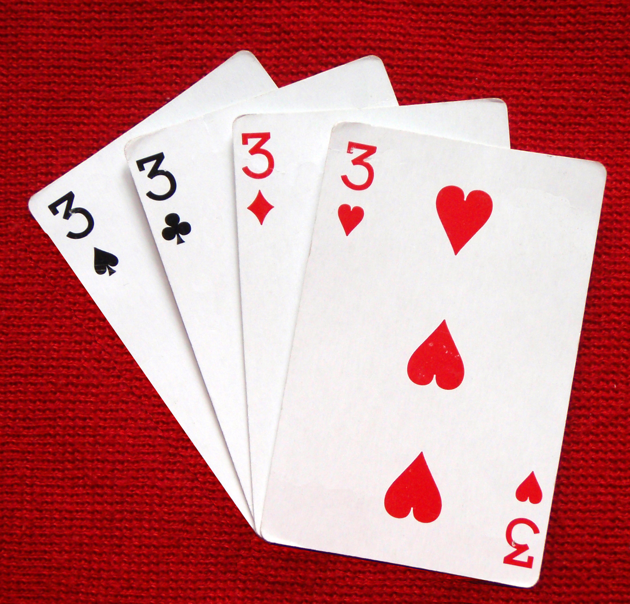 Hand of Threes (3 of Spades, 3 of Clubs, 3 of Diamonds, 3 of Hearts).